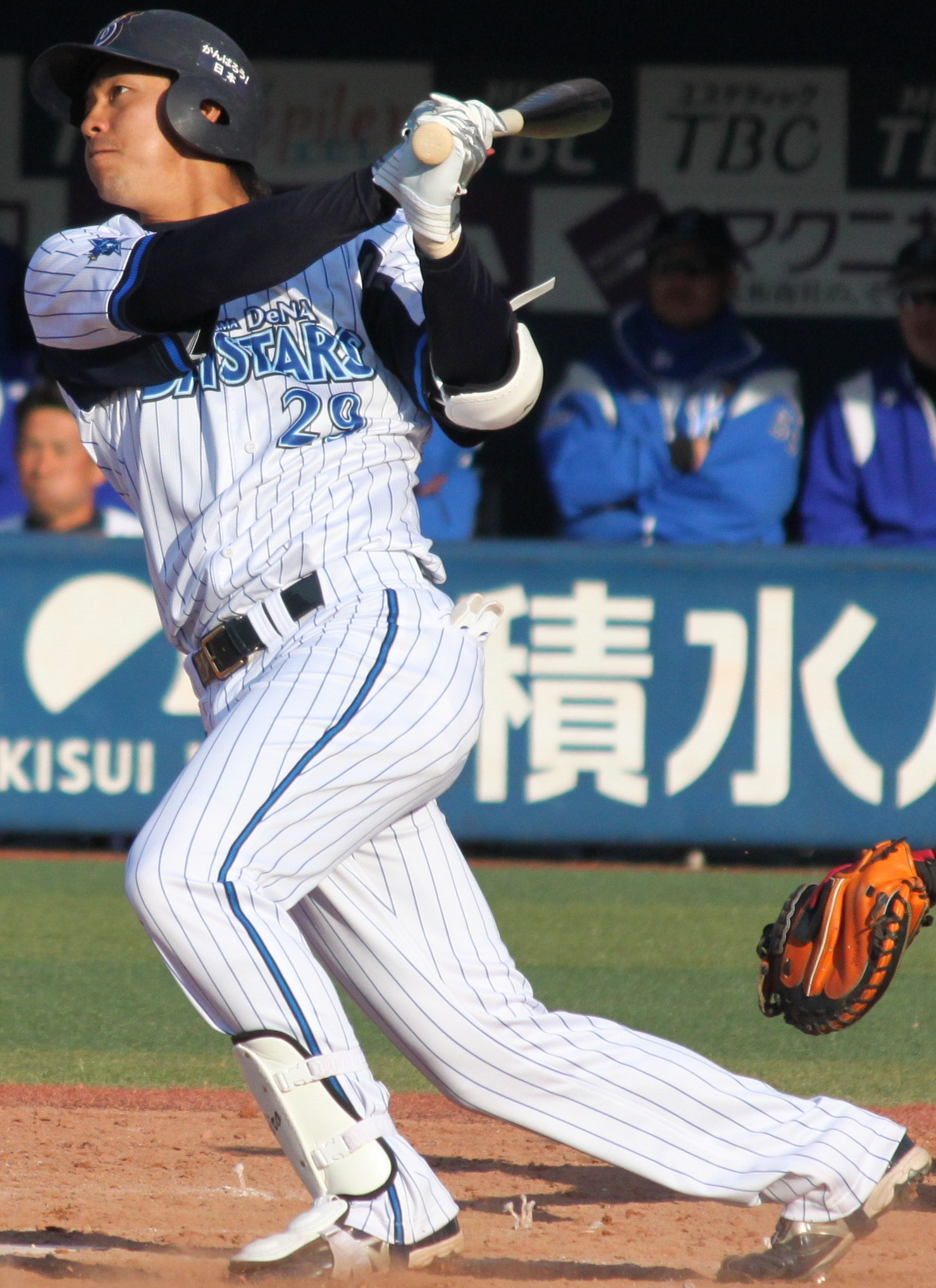 Hiroyuki Shirasaki, infielder of the Yokohama DeNA BayStars, at Yokohama Stadium.